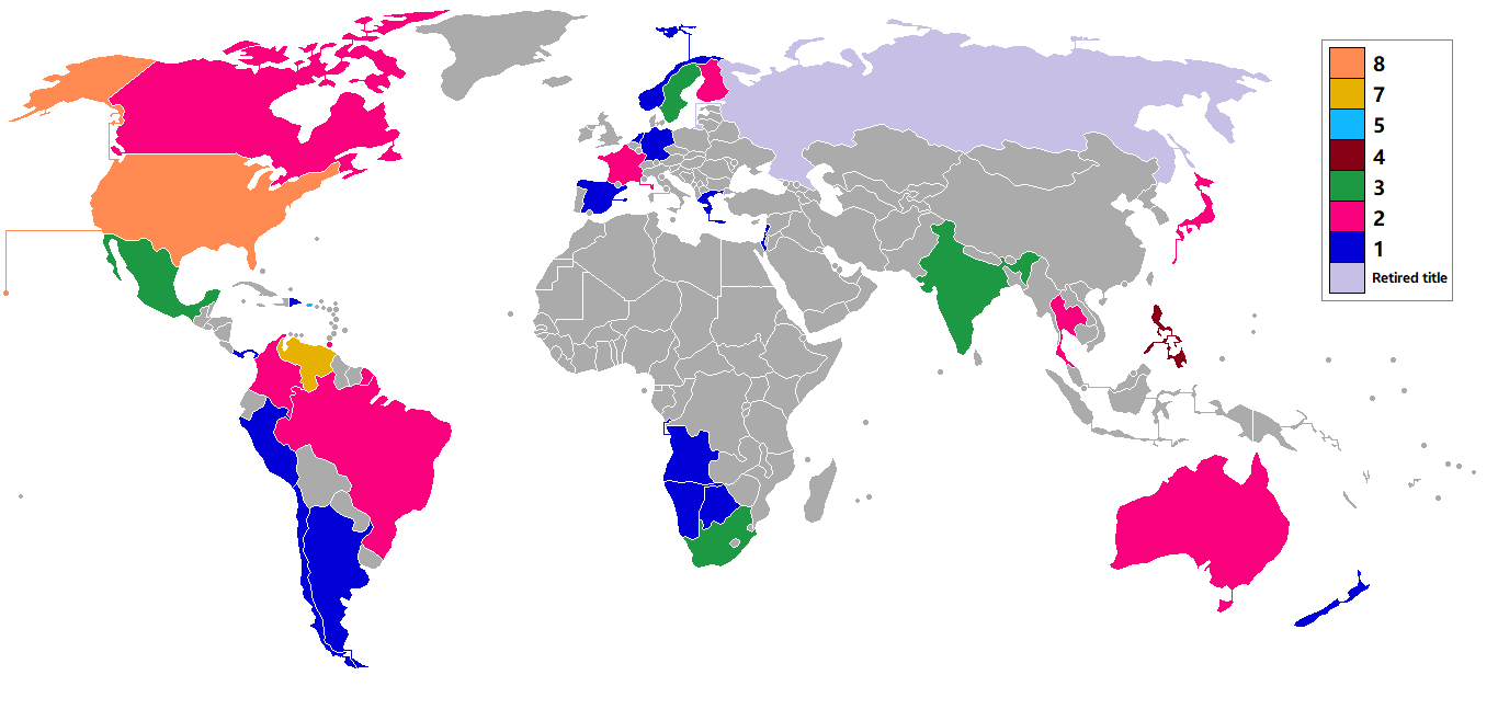 Miss Universe titles.